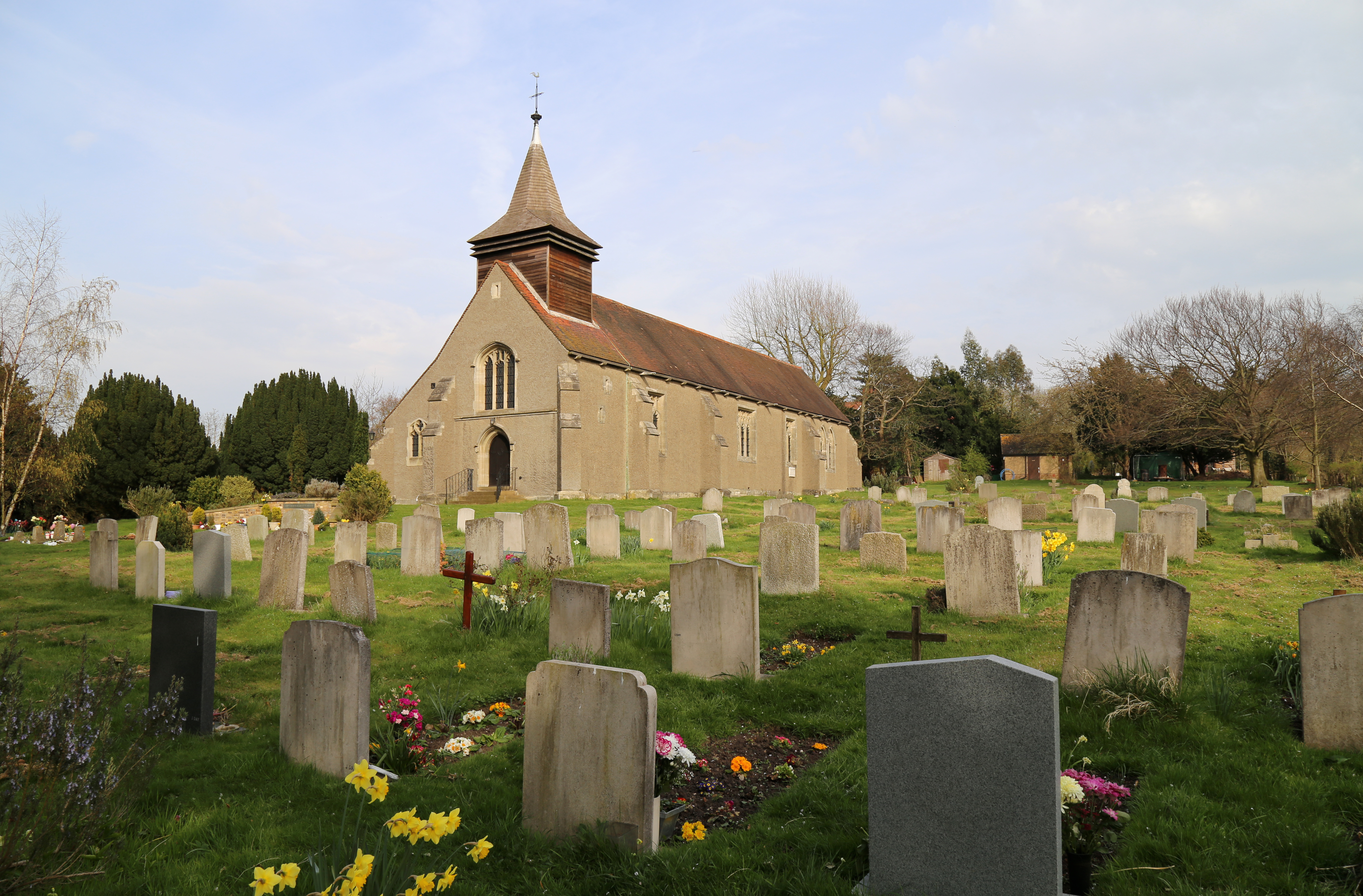 St Thomas' parish church and churchyard, Upshire, Essex, England, seen from the southwest